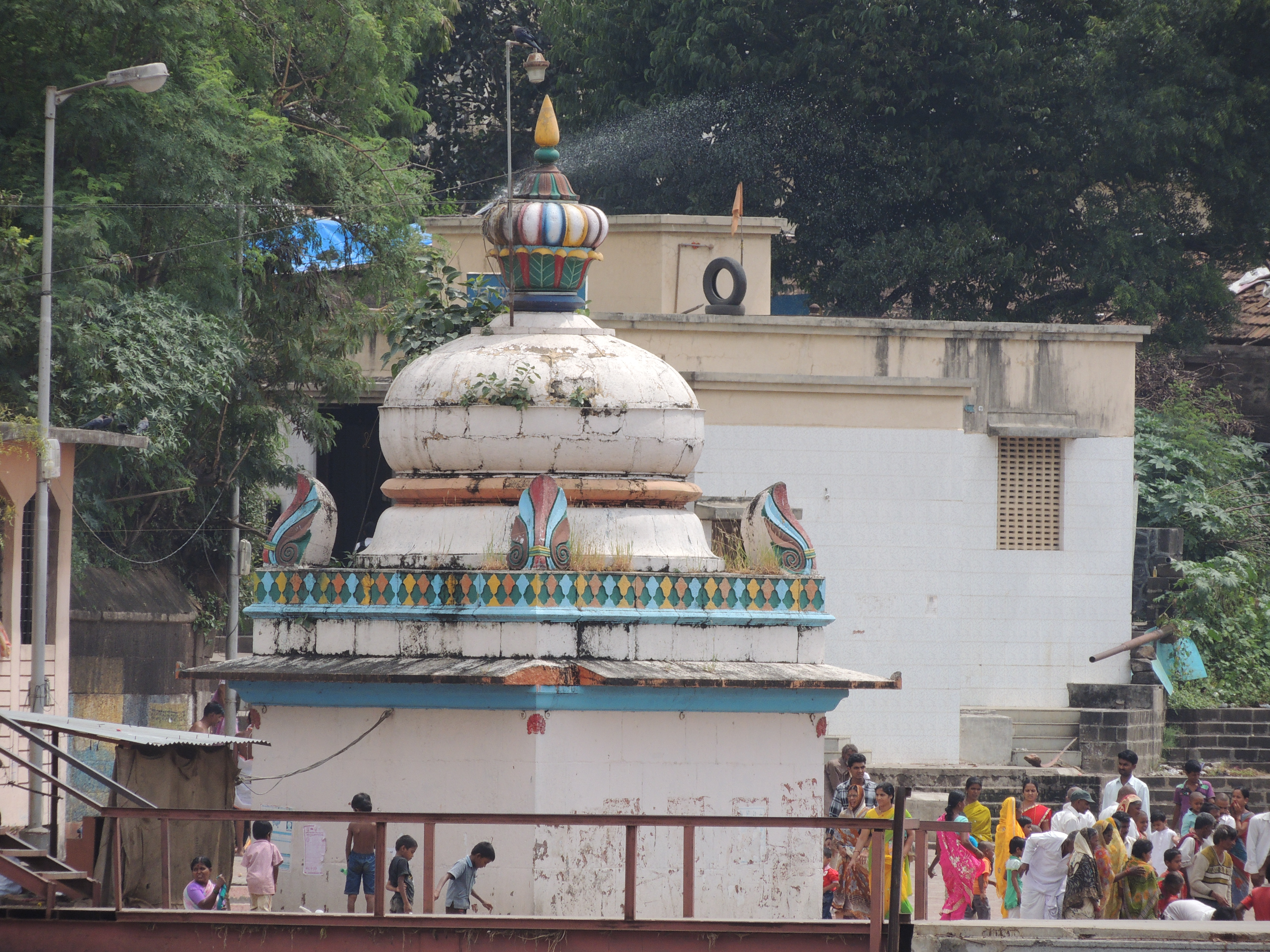 Alandi Pune